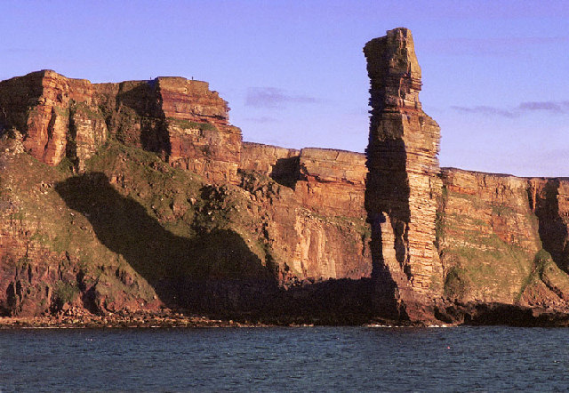 The Old Man of Hoy, Orkney.